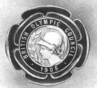 Badge from the 1908 Olympic Games